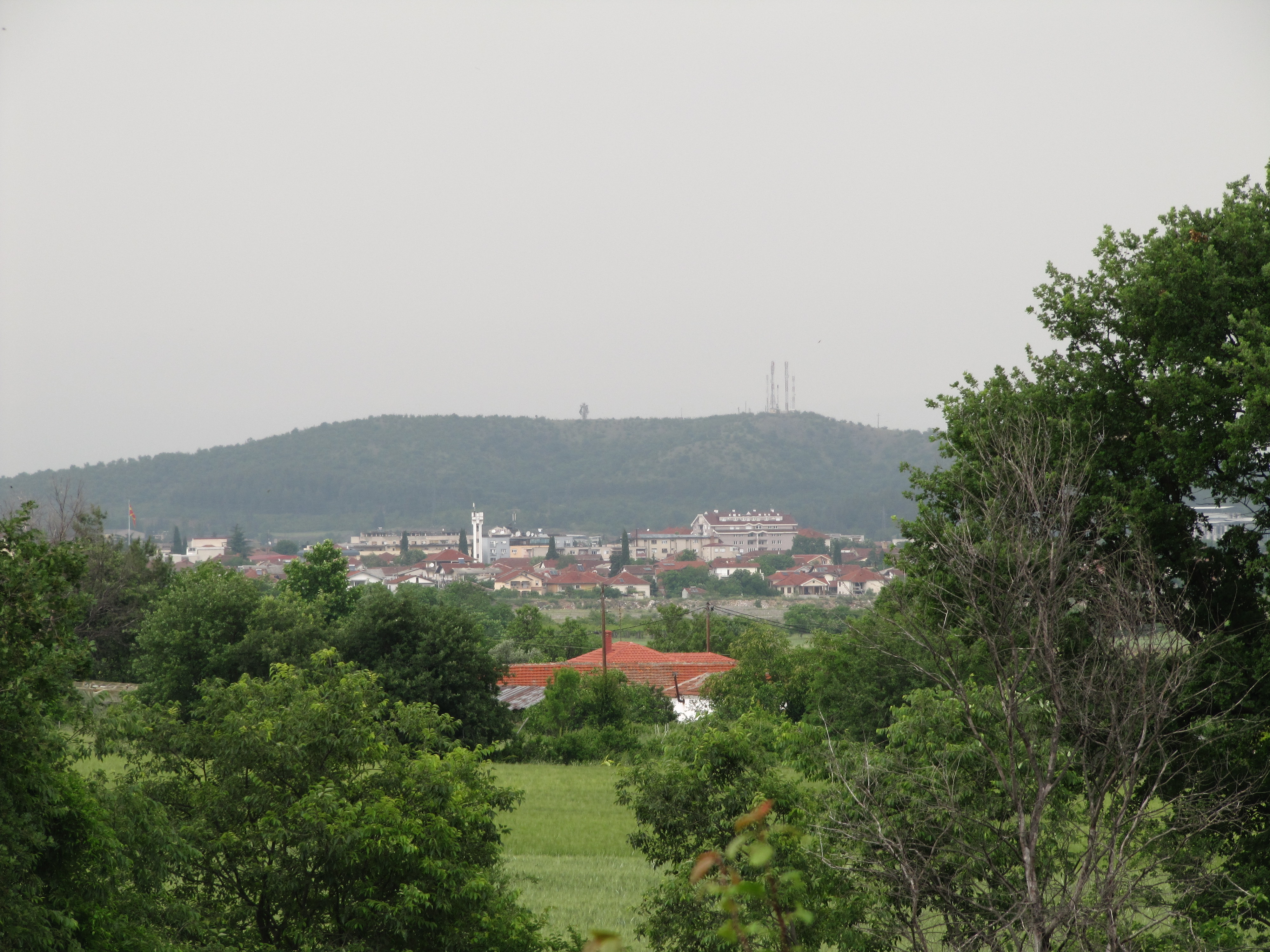 Gevgeli as it appears from Eidomeni